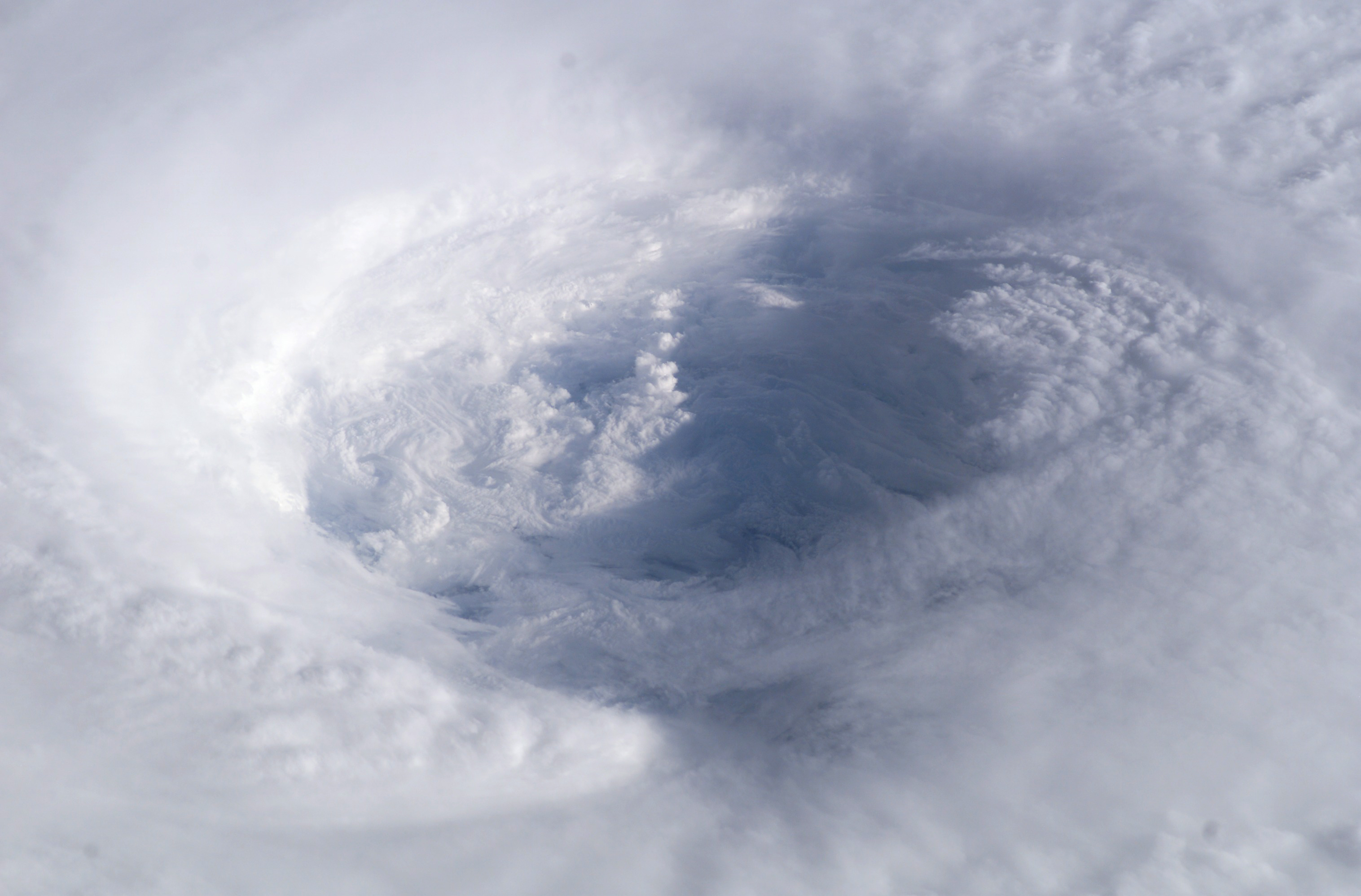 NASA astronaut Ed Lu took this image of the eye of Hurricane Isabel from the International Space Station at 11:18 UTC on September 13, 2003. At the time of the image, Isabel had weakened to a Category 4 hurricane on the Saffir-Simpson Hurricane Scale, from its peak as a Category 5. The storm was located about 450 miles northeast of Puerto Rico. The camera used was a Kodak DCS760C electronic still camera with a focal length of 180 mm.